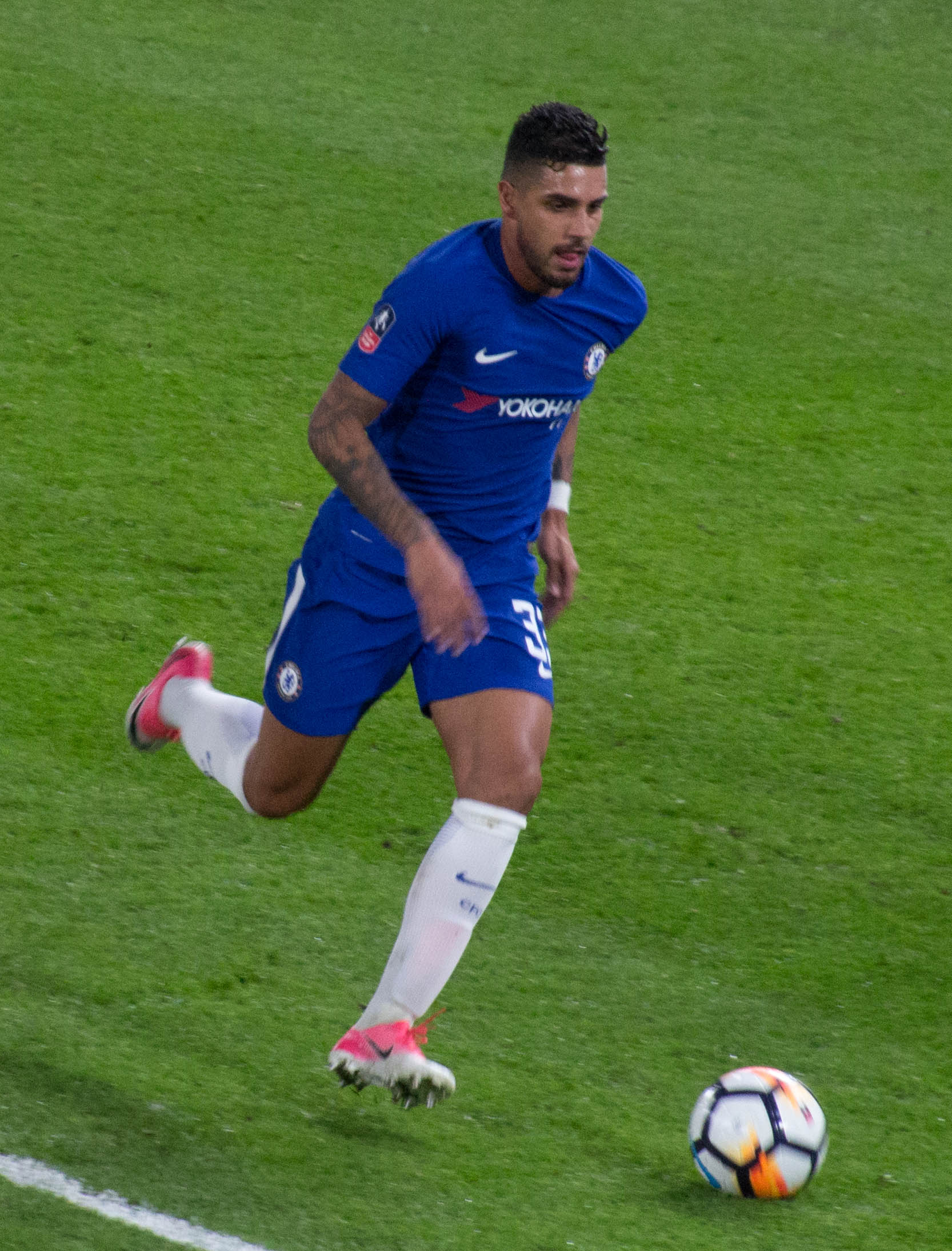 Emerson on his debut for Chelsea FA Cup 5th round 16.2.18